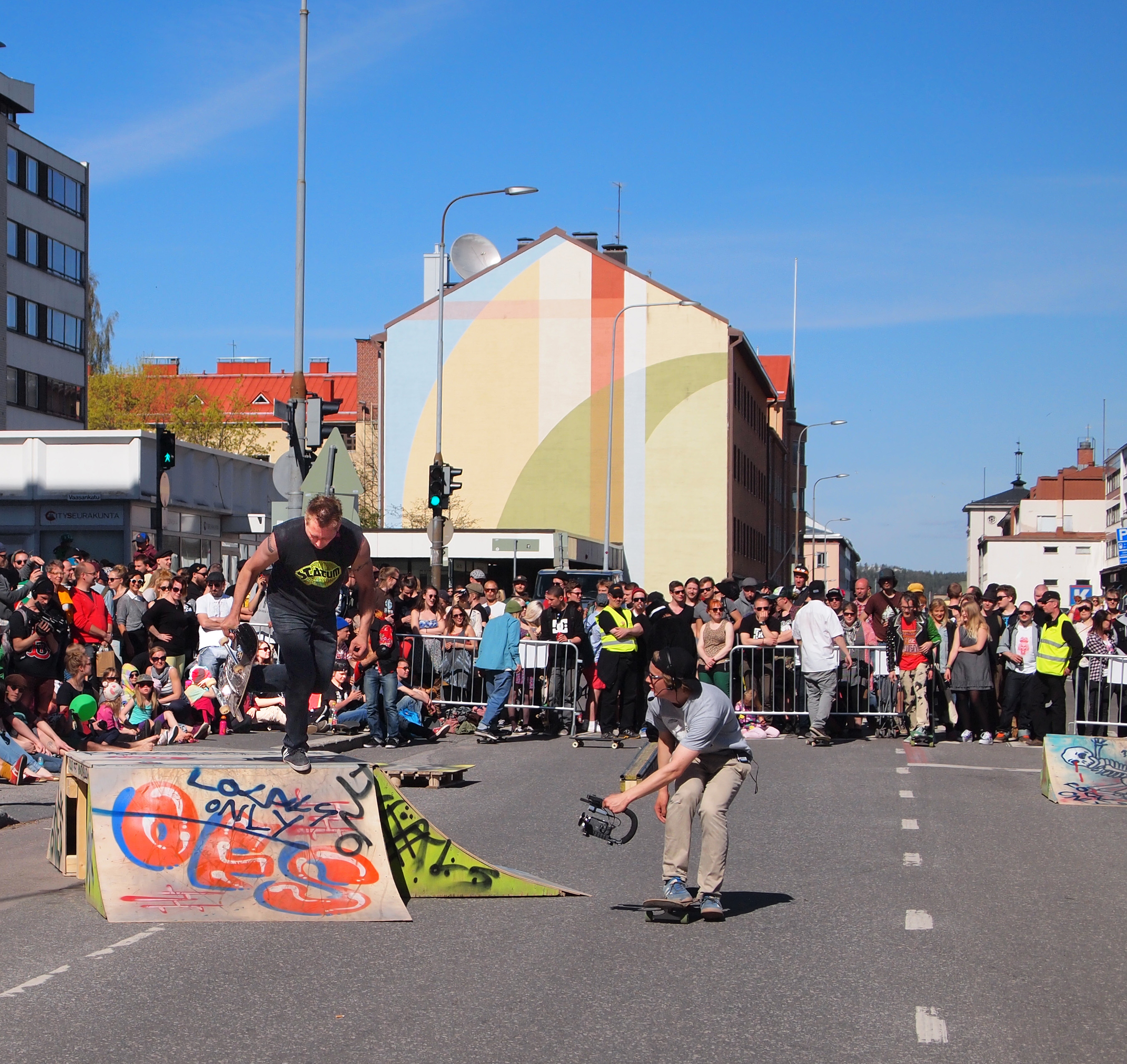 Skateboarding in Yläkaupungin Yö event 2014 in Jyväskylä.